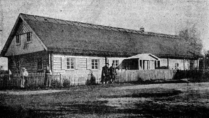 Vincas Kudirka's native homestead in Paežeriai (Pilviškiai Eldership), Vilkaviškis District, Lithuania.